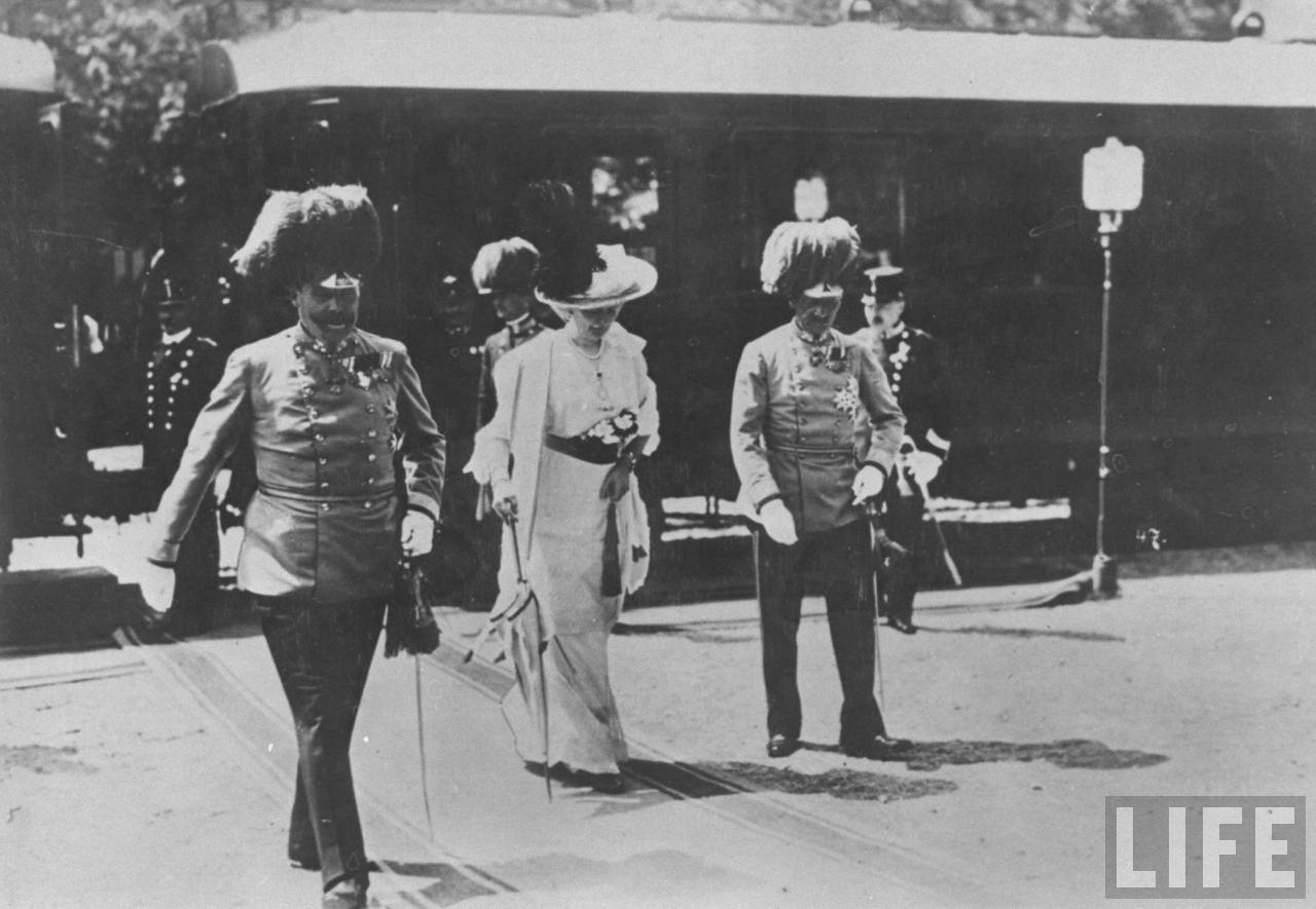 Franz Ferdinand and his wife Sophie arrived at Sarajevo Station at about 10 am on June 18th 1914.